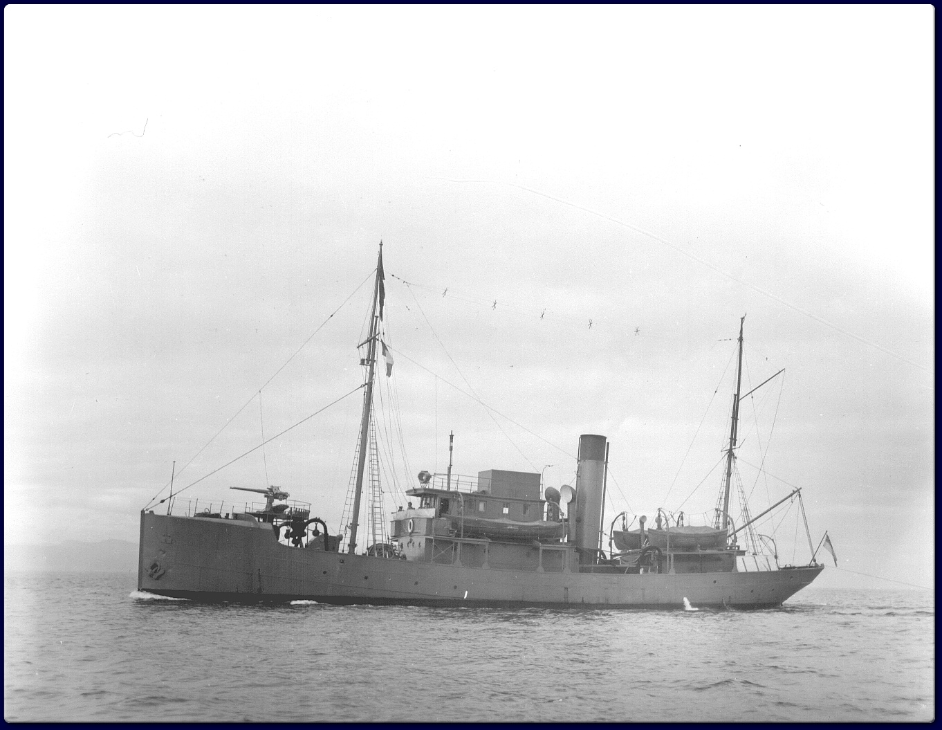 Photograph of Canadian Battle class naval trawler HMCS Armentières.